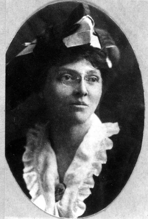 ID. Portraits Collection 685 - port0685 - U.S. Geological Survey - Public domain image